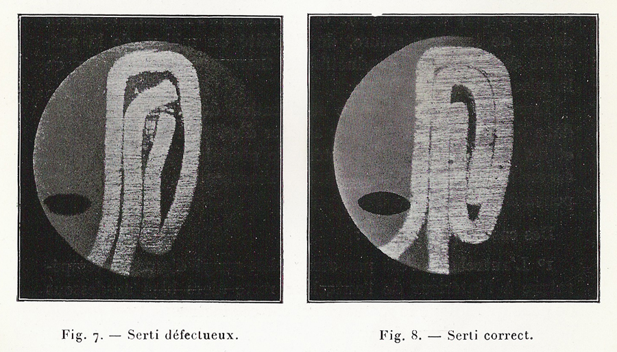 Can seam (bad and good)